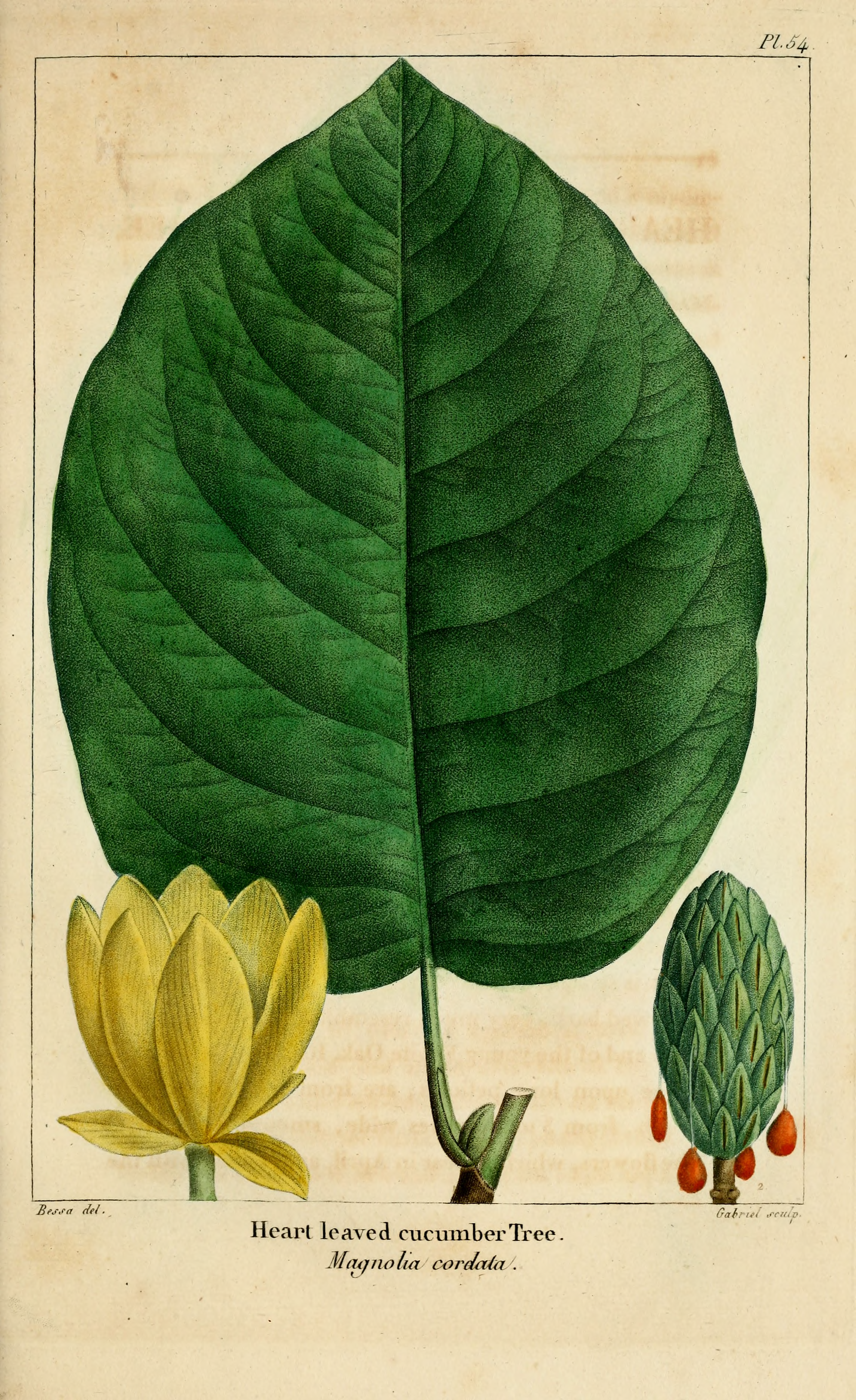 Plate 54 from The North American Sylva: Magnolia acuminata var. subcordata - yellow cucumbertree. (Original caption: Heart leaved cucumber Tree. Magnolia cordata.)